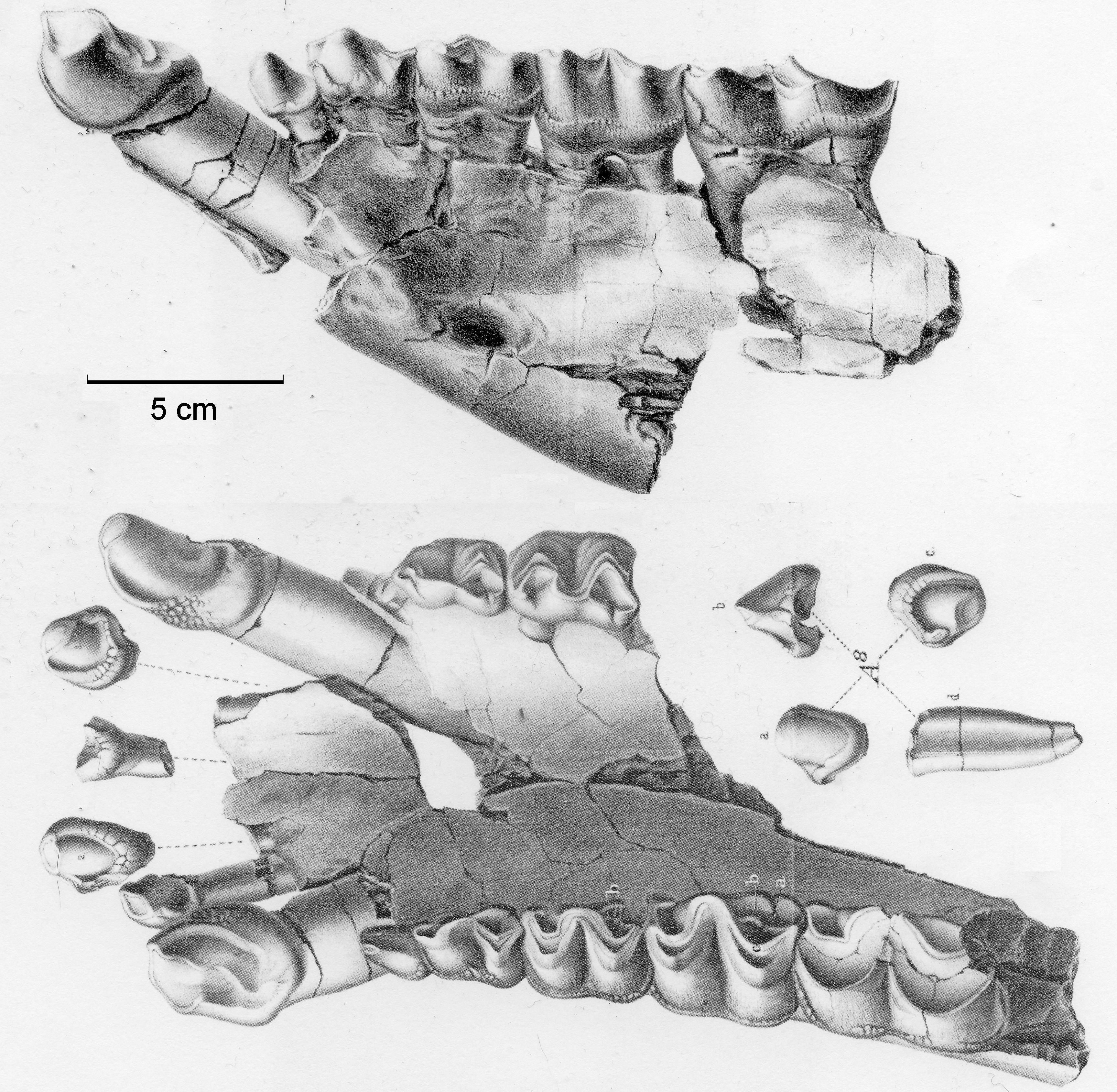 Holotype of Brachydiastematherium transylvanicum, drawing by Osborn in 1929 (Titanotheres of ancient Wyoming, Dakota, and Nebraska. United States Geological Survey Monographs 55, 1929), reprinted in Mihlbachler 2008